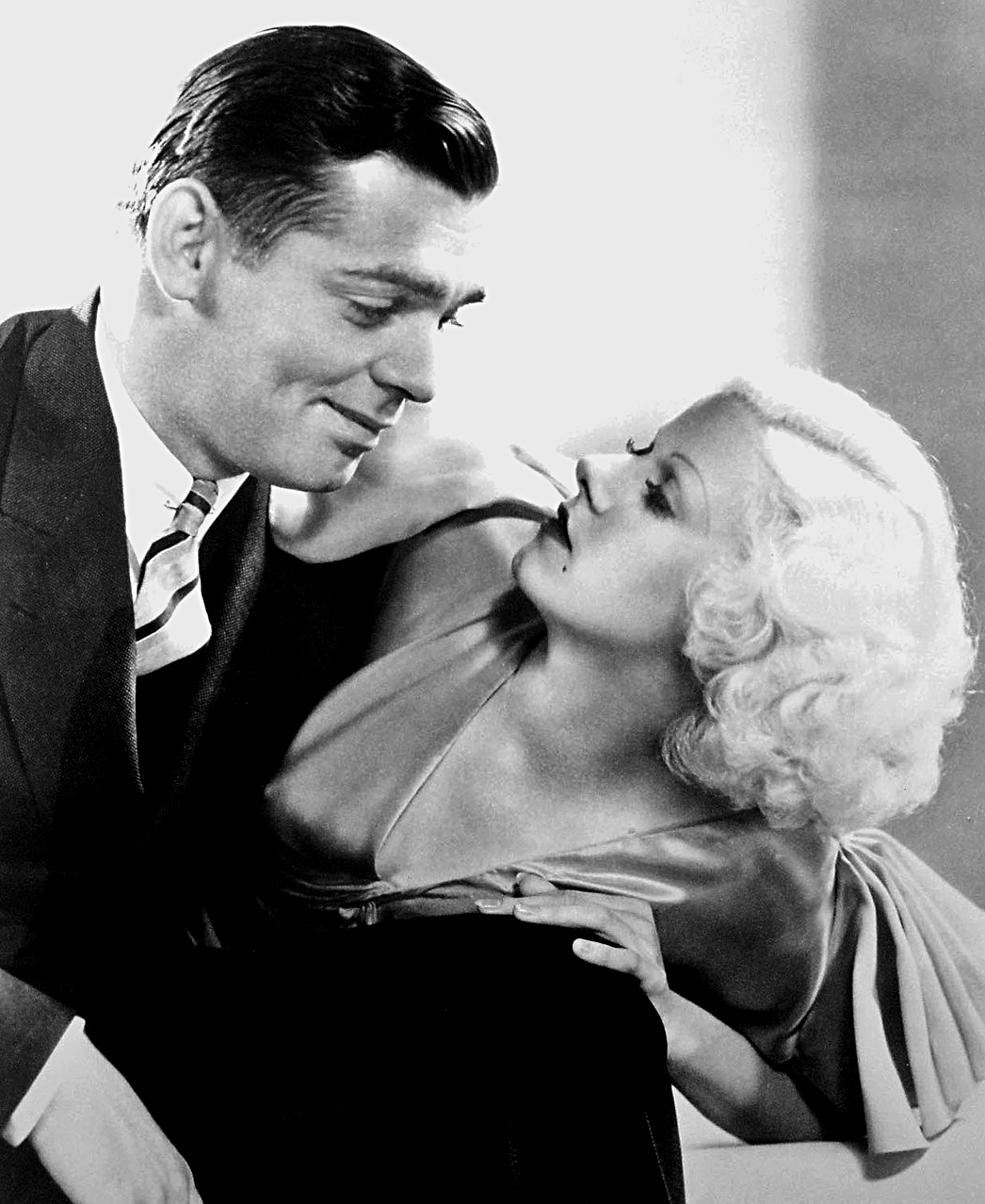 Publicity photo of Clark Gable and Jean Harlow in the American film Hold Your Man (1933).